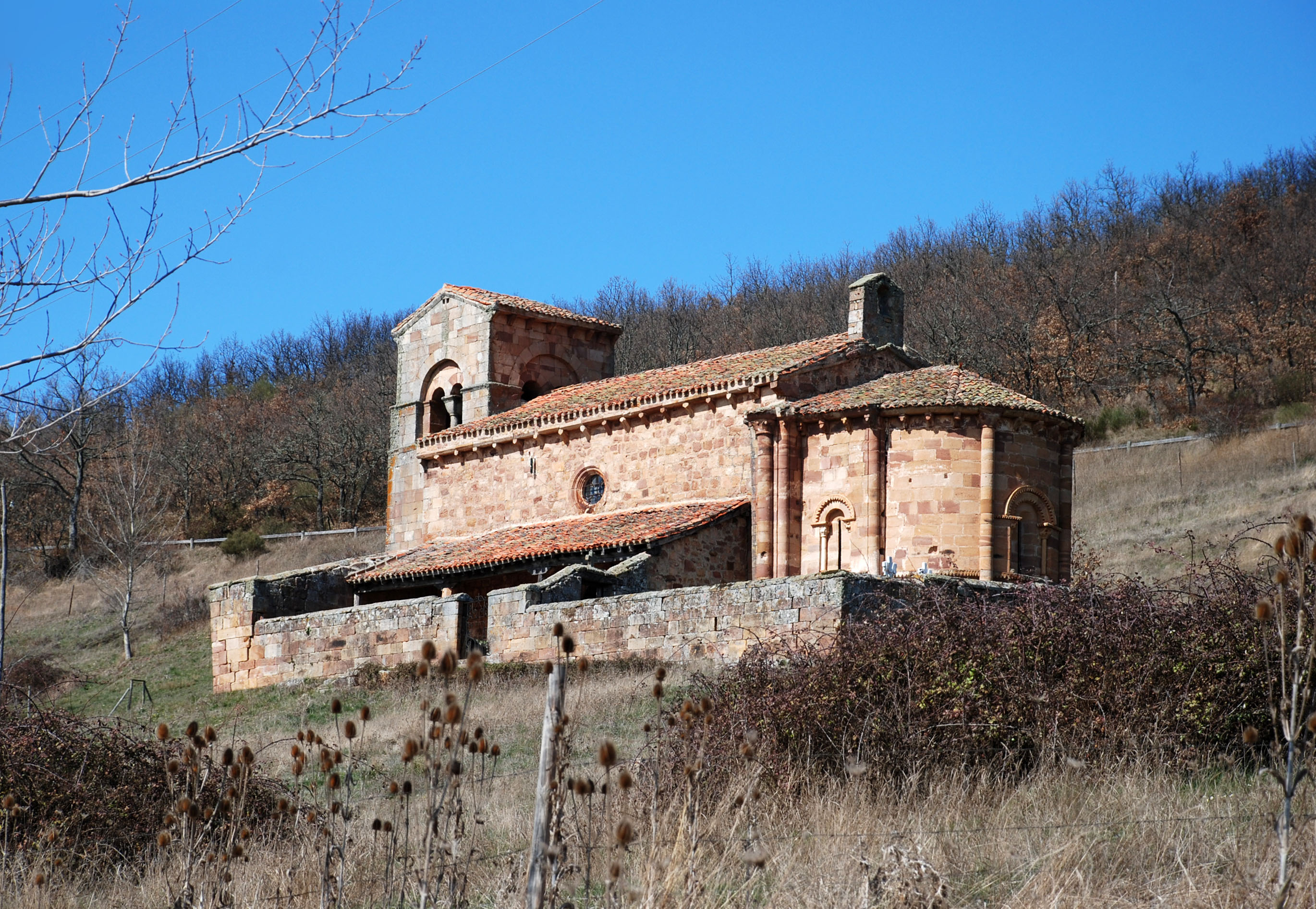 Parish Church of Santa Marina in Villanueva de las Torres, small village in Barruelo de Santullán (Palencia, Castile and León). Dated at the end of the 12th century temple has a single nave surmounted in semicircular apse with two openings beautiful decorated with tips of diamond between two semi-detached columns. The vain central apse is the most interesting and leads a double-headed diamond resting on cimacios of tips of diamond supported by two columns whose capitals are decorated with hipocrifos, half Eagle frieze and half horse, as guardians of the place. The vain of the south wall is very similar but has been partly reconstructed. Appear in the eaves canecillos decorated with human heads, seated characters, geometric figures, etc. It has a robust Square Tower double-decker separated by a shelf. Each side of the upper floor opens a large arch containing vain case. Inside the Church the triumphal arch lays on capitals decorated with the theme of Daniel in the moat of the Lions and confronted taps, as well as an old Baroque altar and a good image of the Virgin with the child in the 13th century.